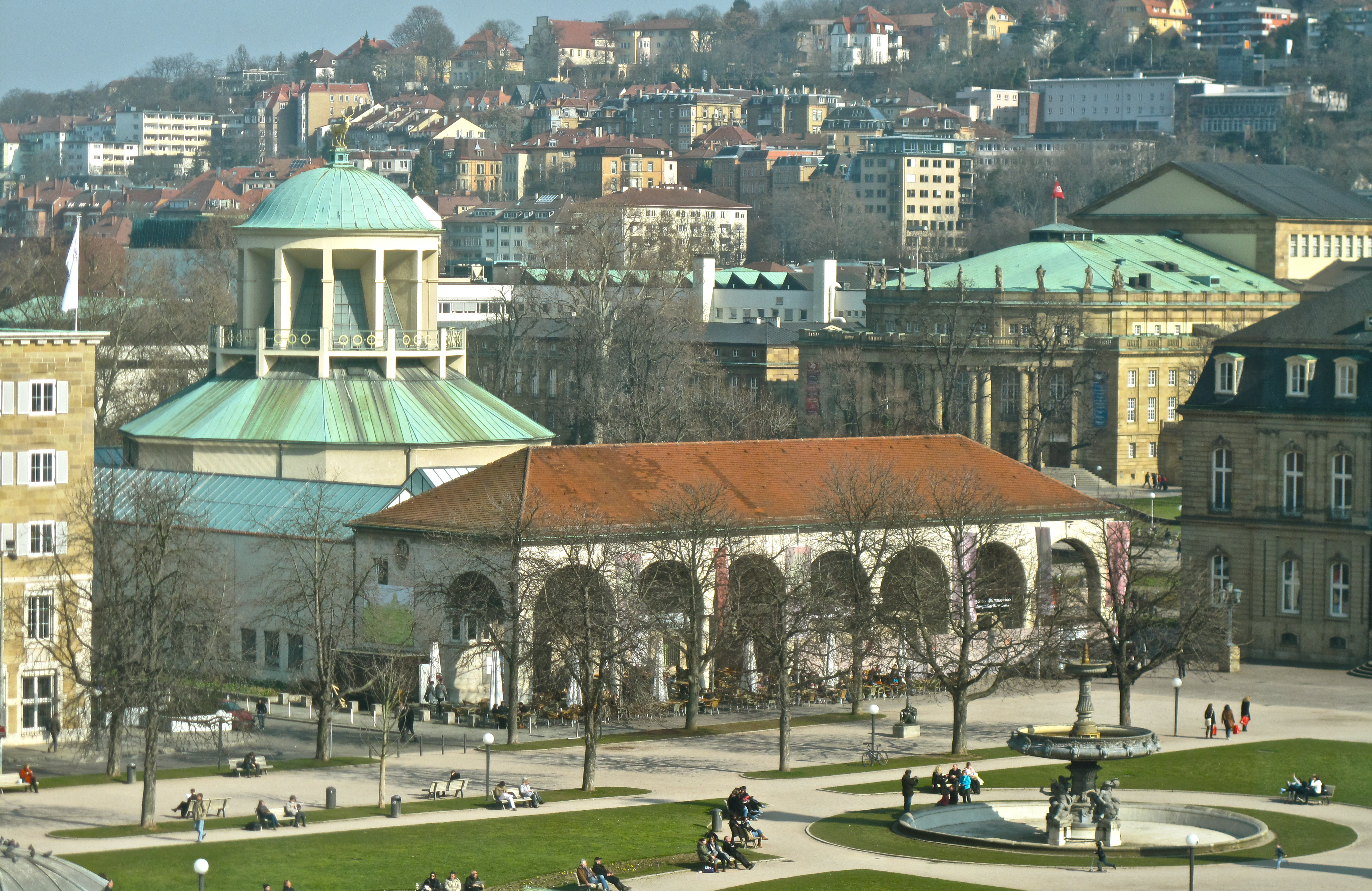 The Kunstgebäude at the Schlossplatz in Stuttgart.